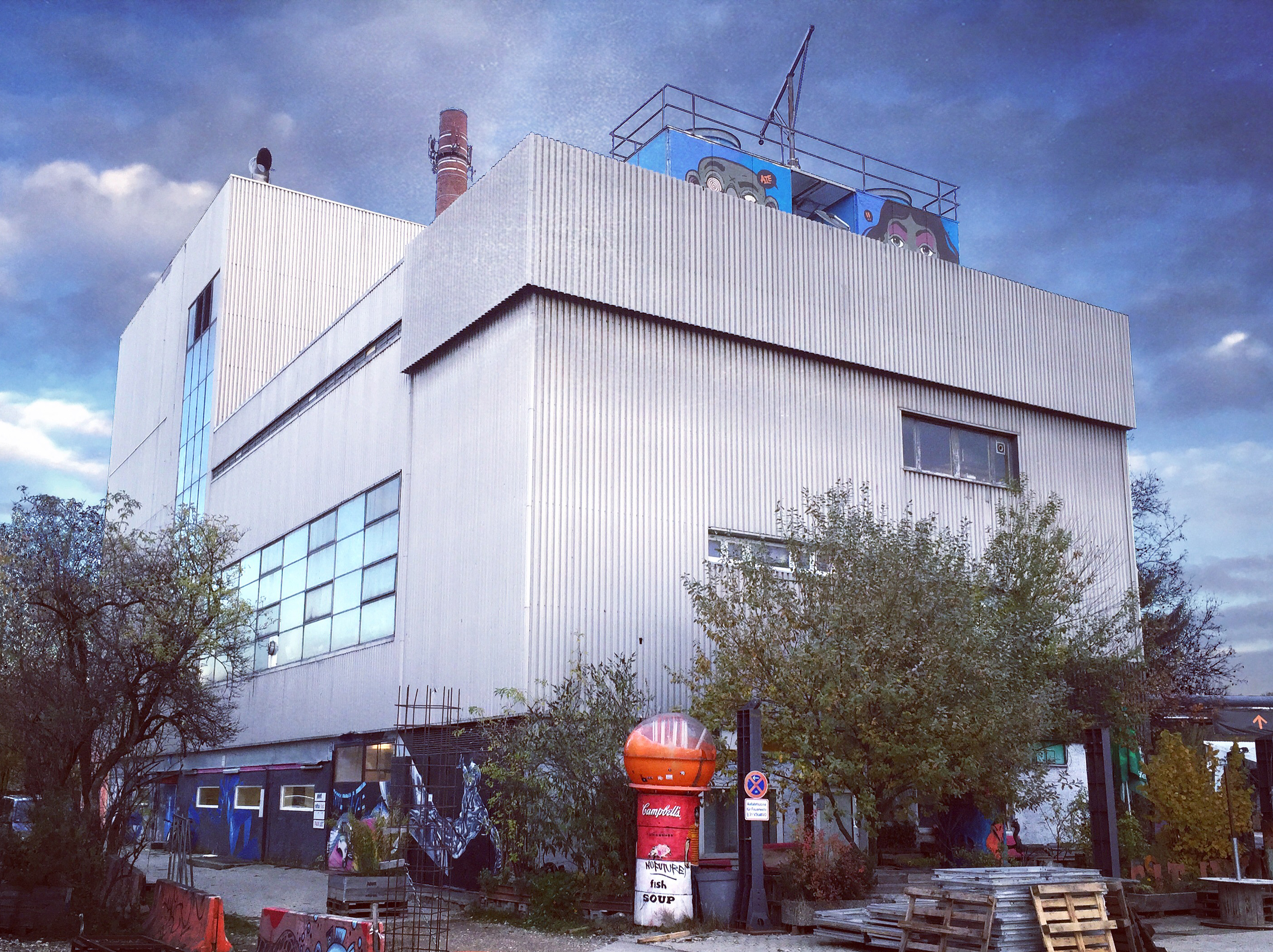 The former power plant where Munich's Natraj Temple nightclub was located.